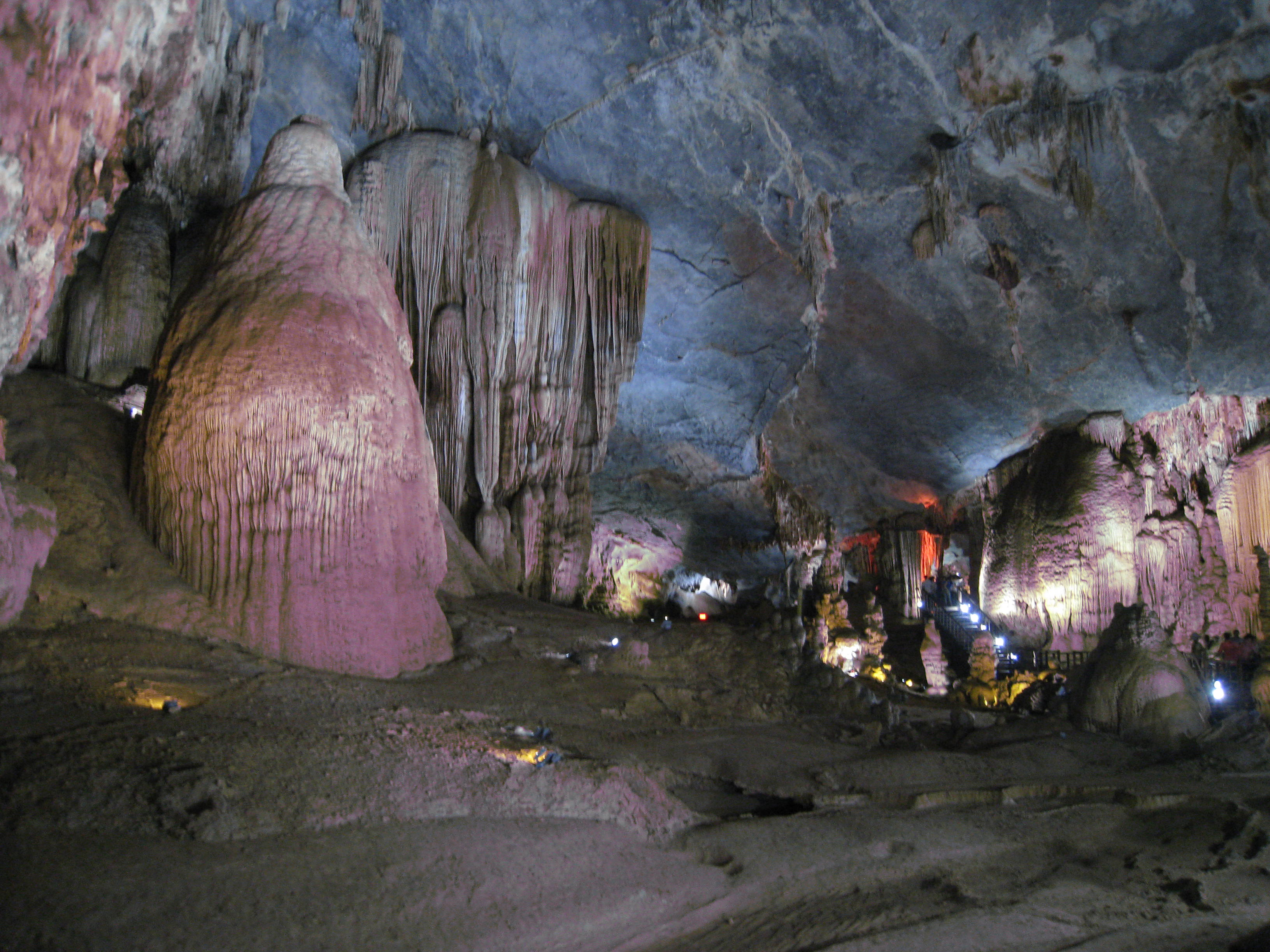 Thien Duong Cave in Phong Nha-Ke Bang, Vietnam